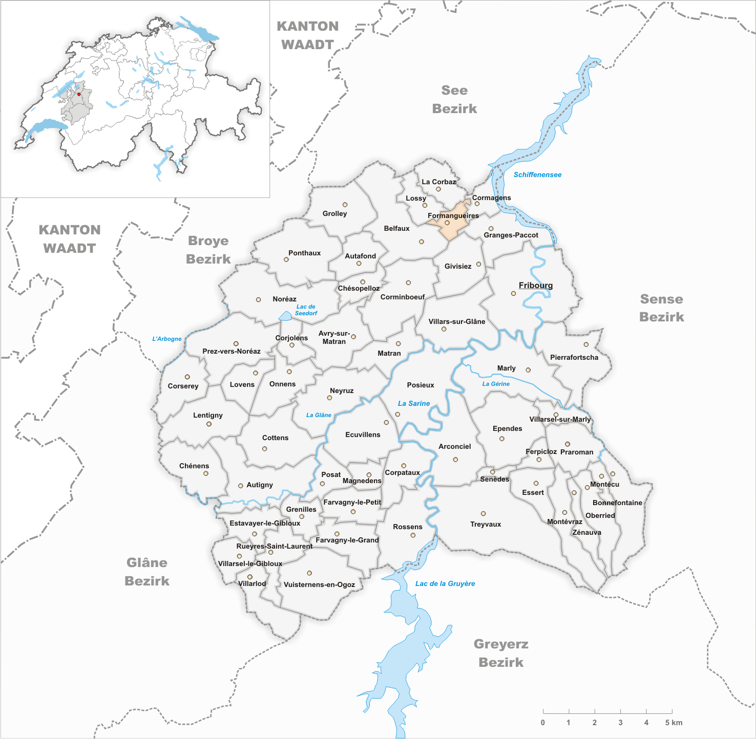 Municipality Formangueires Artist: Tschubby